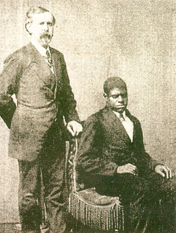 Pianist "Blind Tom" Thomas Wiggins and his owner General Bethune († 1884)